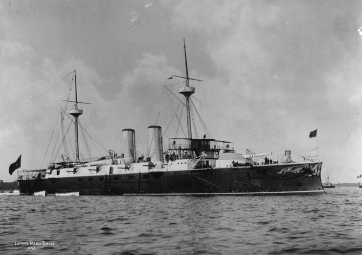 Infanta Maria Teresa Spanish Armored Cruiser (1890-1898), believed to be taken at the Opening of the Kiel Canal, Germany, in 1895. This ship was lost in the Battle of Santiago, Cuba, 3 July 1898.